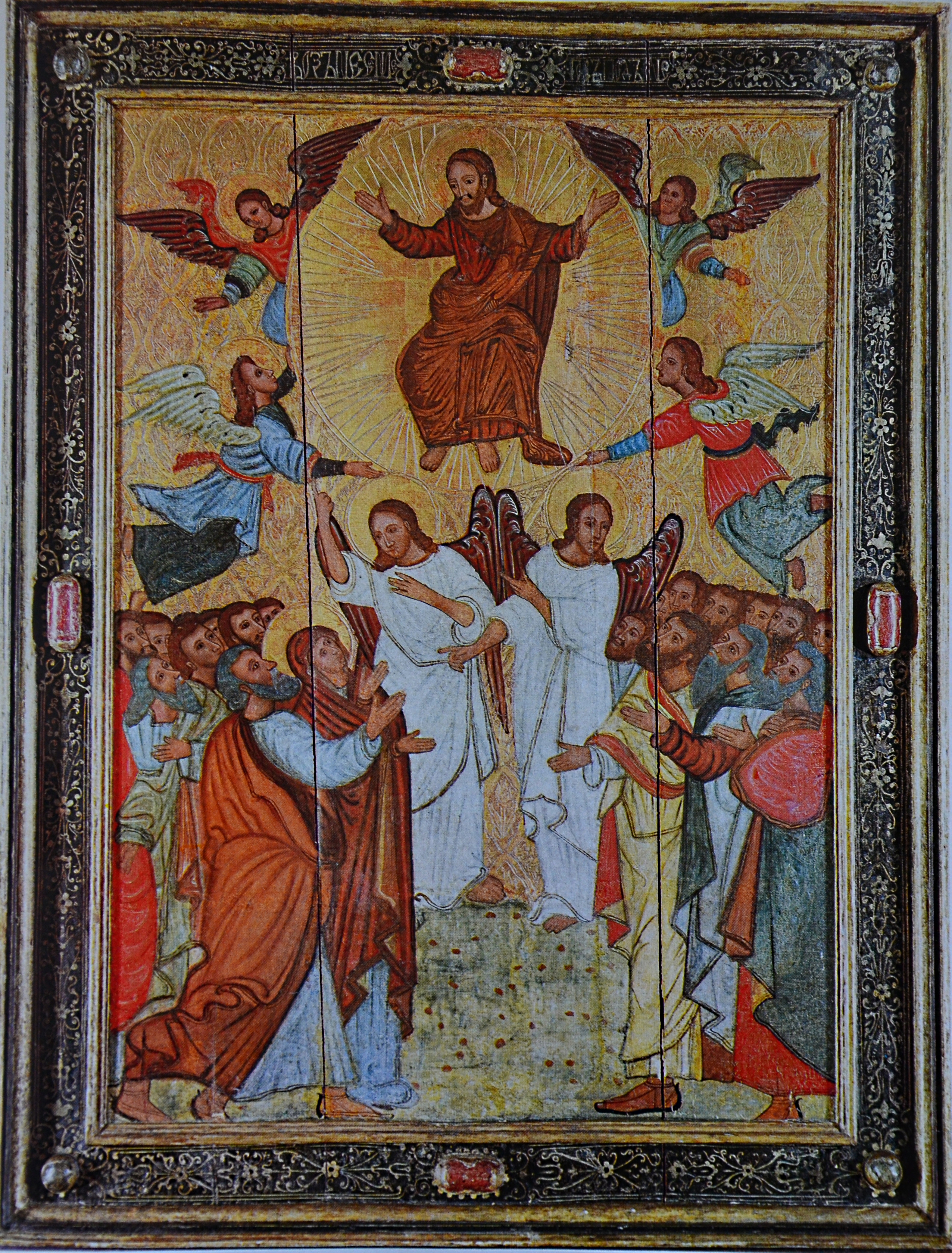 Ascension. Mid-17th century. Belarusian school. National Art Museum of the Republic of Belarus. Board, egg tempera. 140 x 106 cm. Taken by the expedition in 1921 with Stefanovskaya church of the 17th century in Slutsk. Disclosed in the State Central art restoration workshop FA Modorova, V. Filatov, IP Gorin in 1954 - 56 years. Was shown at the 1st nation-wide art exhibition in 1926. Included in the catalog of the exhibition, the section of the ancient art. Editor - Mikola Schekotihin. 1926, №12, p. 16